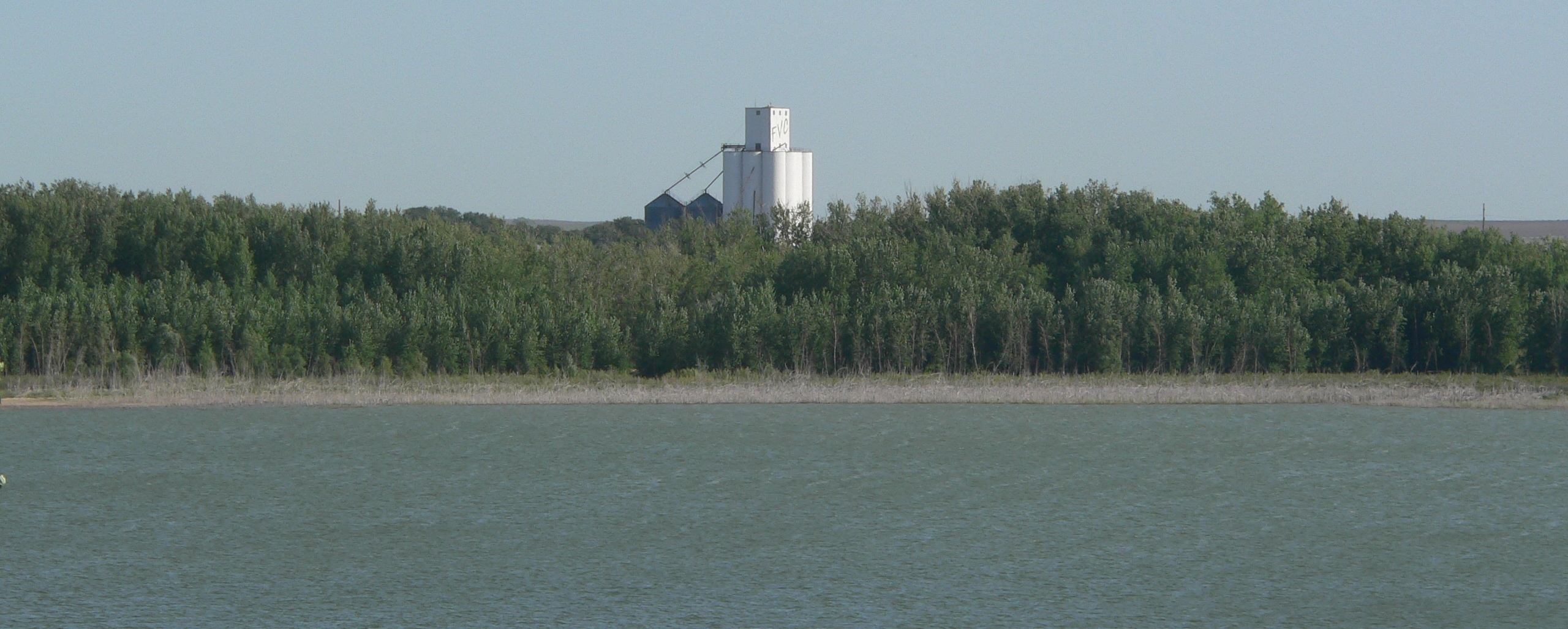 Enders, Nebraska, seen from generally southward across Enders Reservoir.